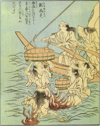 Funayūrei (船幽霊, Ghosts of people dead at sea) from the Ehon Hyaku monogatari (絵本百物語)